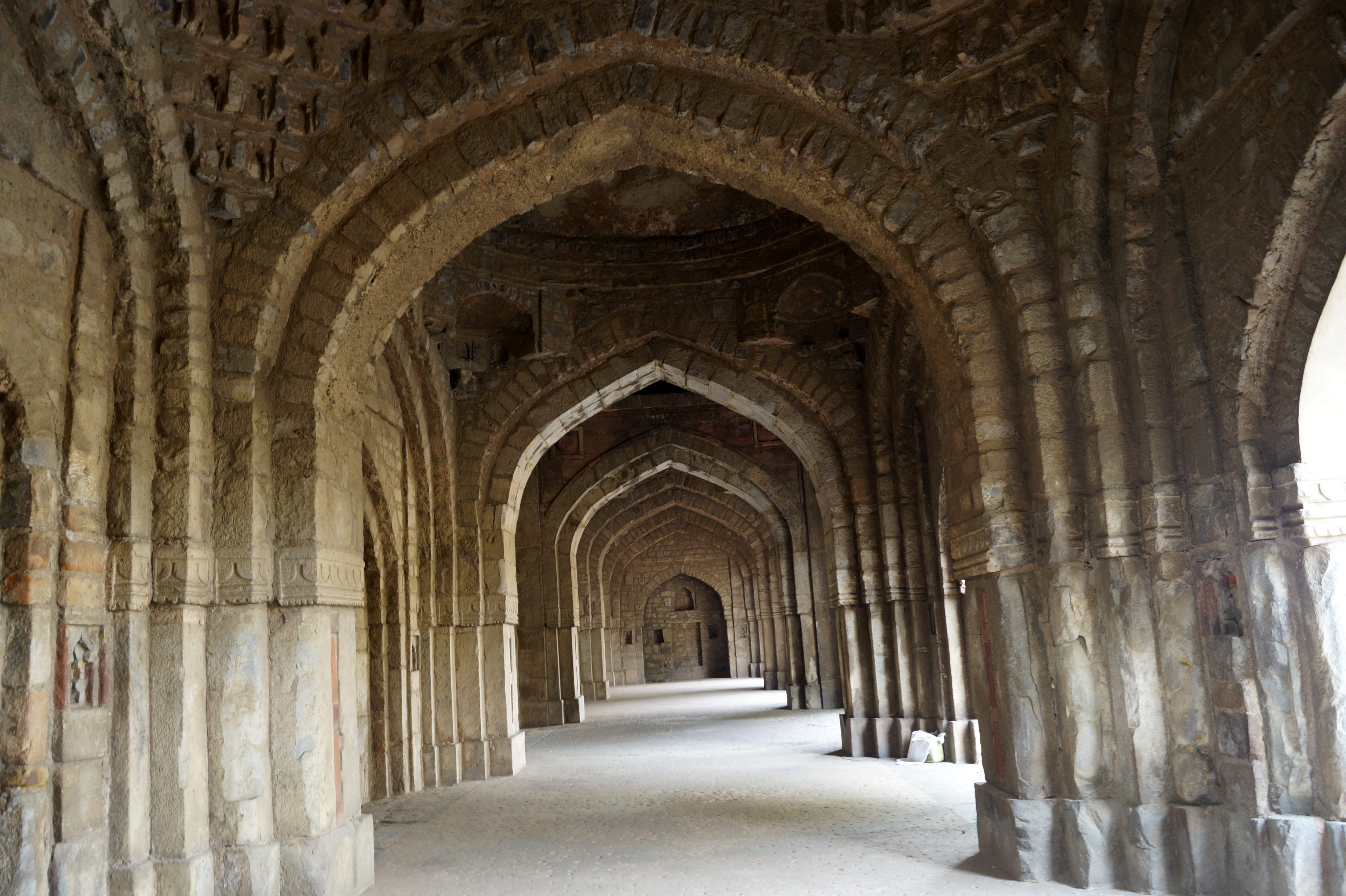 Inner architect of Jamali Kamali Mosque and Tomb, New Delhi, India